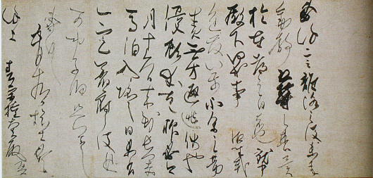 Letter(s)? by Fujiwara no Sari (藤原佐理筆書状, Fujiwara no Sari hitsushojō) dated to 991, Heian period. mounted on Hanging scroll, ink on paper, 64.6 cm × 131.7 cm (25.4 in × 51.9 in). Located at the Hatakeyama Memorial Museum of Fine Art, Tokyo. The scroll has been designated as National Treasure of Japan in the category ancient documents.